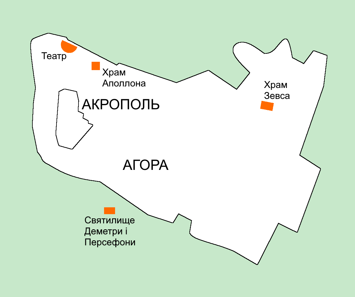 Map of Cyrene in the Classical Time